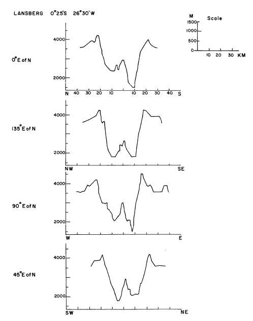 Lansberg crater cross-section.